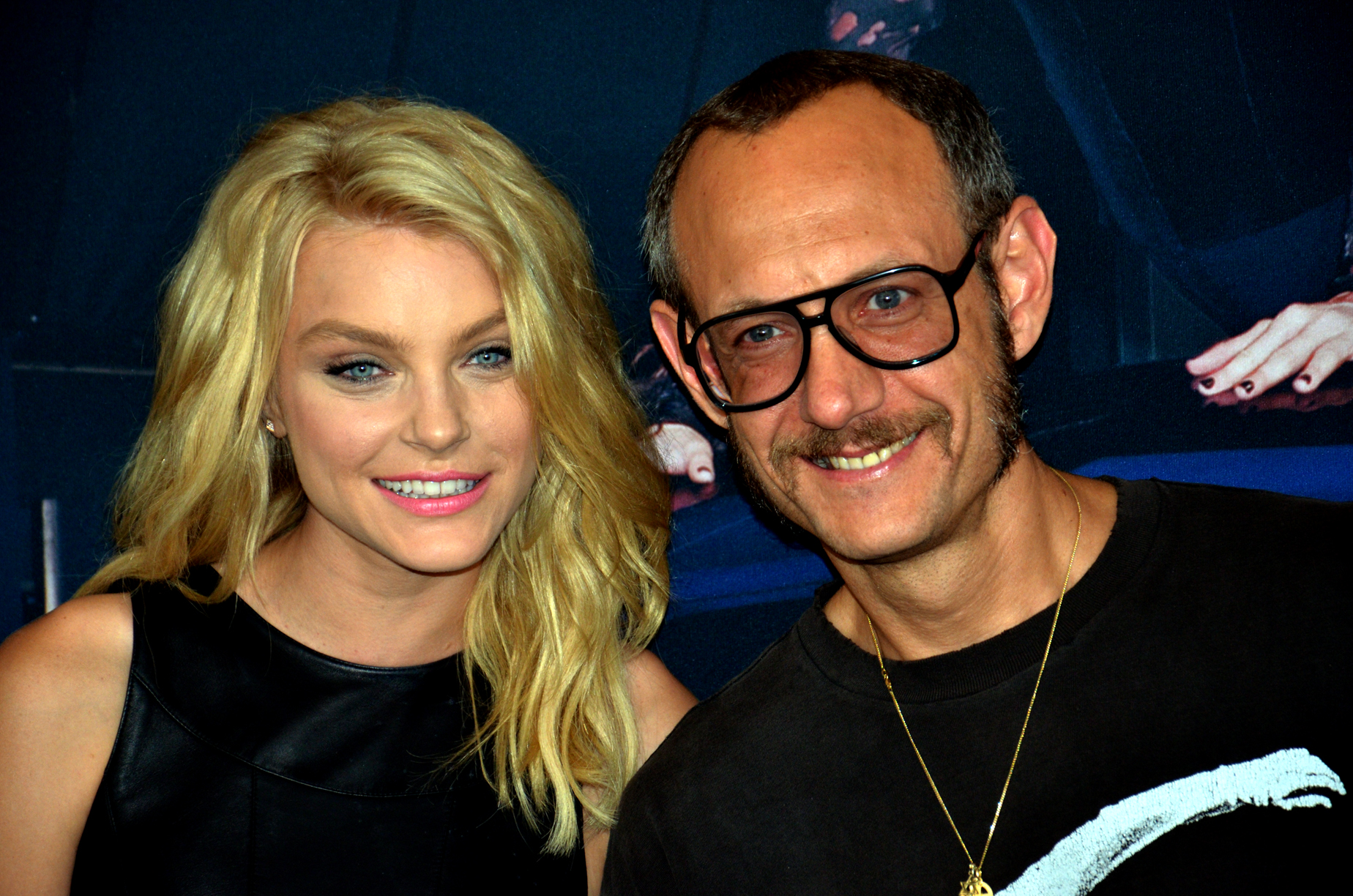 Jessica Stam and Terry Richardson